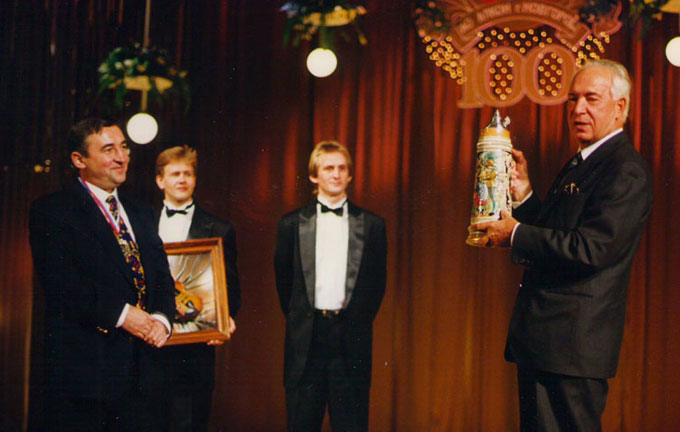 Alkon 100-year